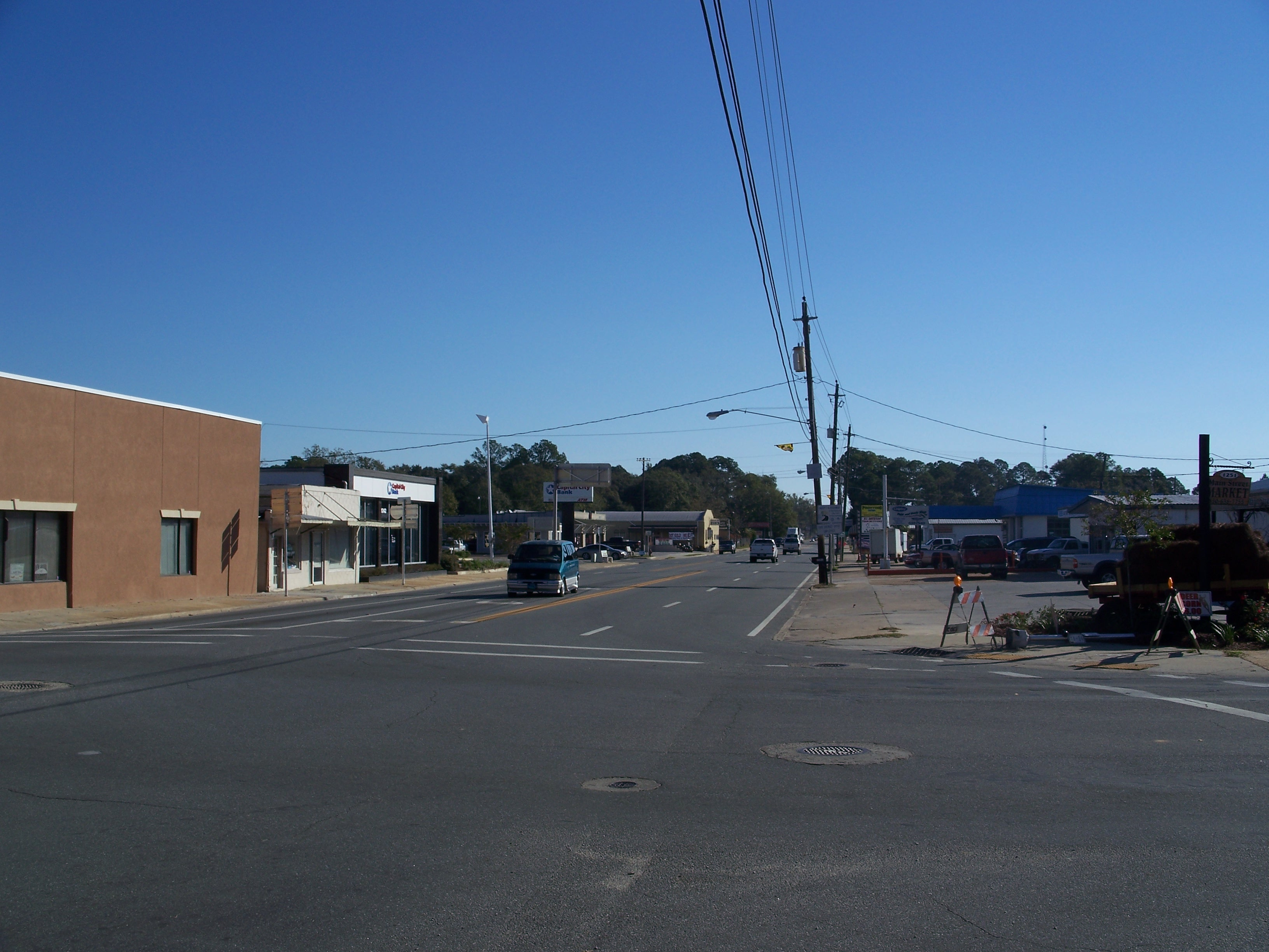 Chipley, Florida: US 90, looking east